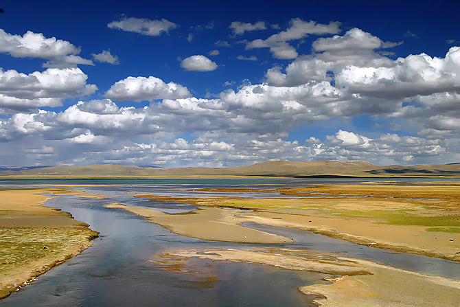 Tuotuo River and landscape, Qinghai, western China